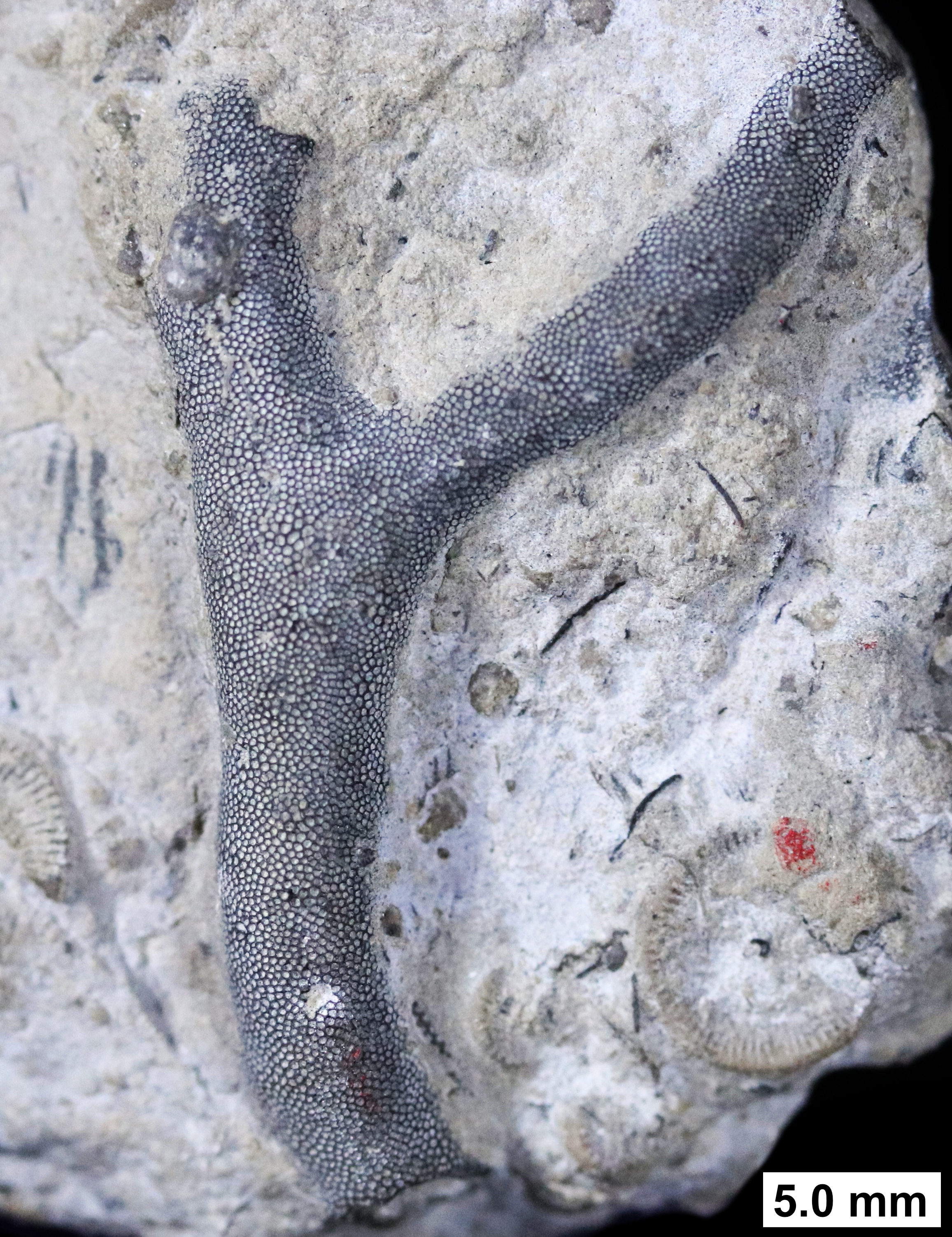 Permineralized bryozoan from the Devonian of Wisconsin; Milwaukee Formation; Lindwurm Member; UWM-GM 5880; Fossils of the Milwaukee Formation: A Diverse Middle Devonian Biota from Wisconsin, USA. Siri Scientific Press, Manchester, UK.